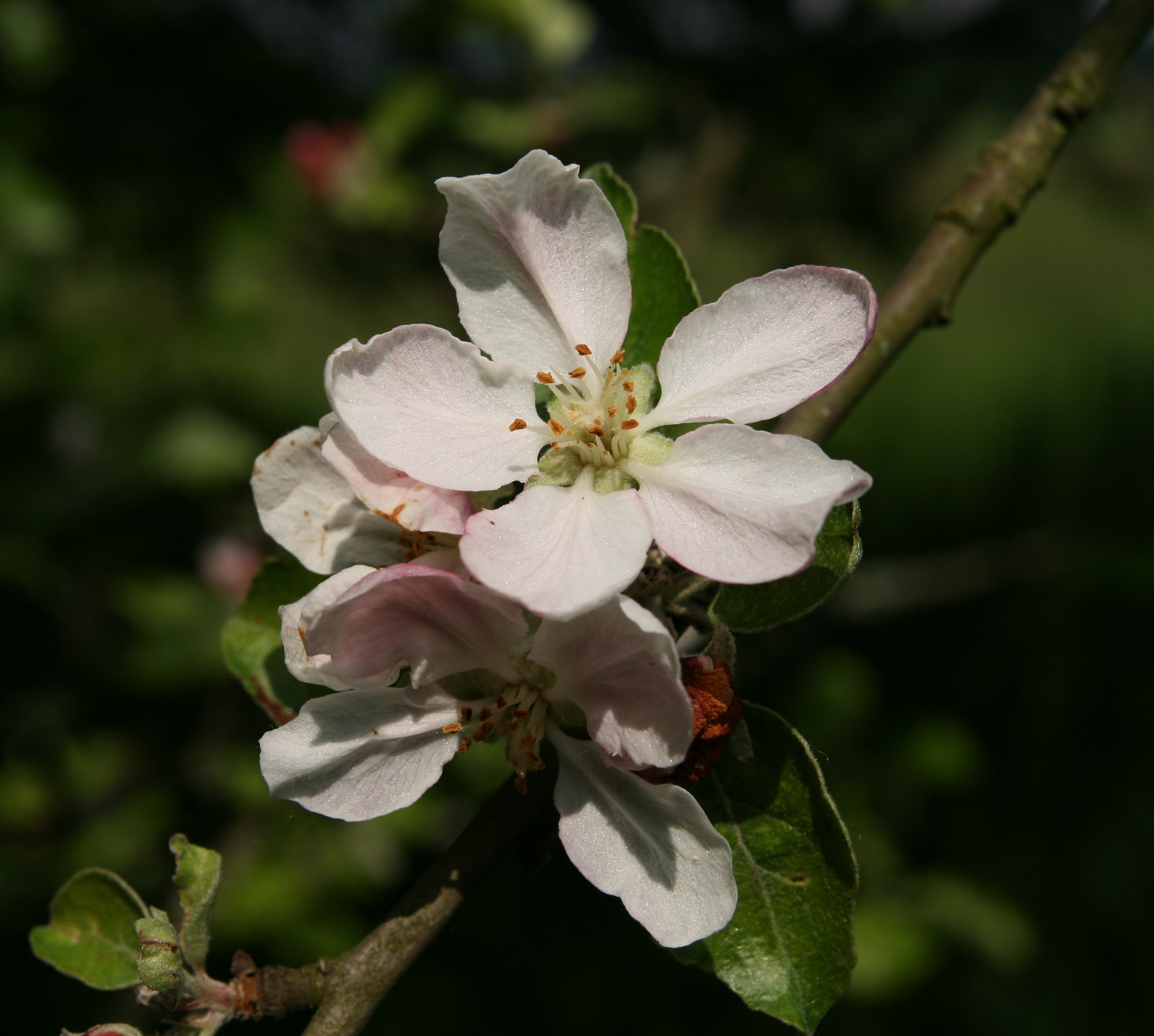 Blossom of the apple variety Jacques Lebel